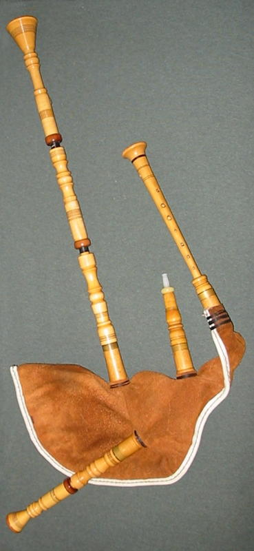 A bagèt (tuned in G major) built in 2000 by luthier Valter Biella